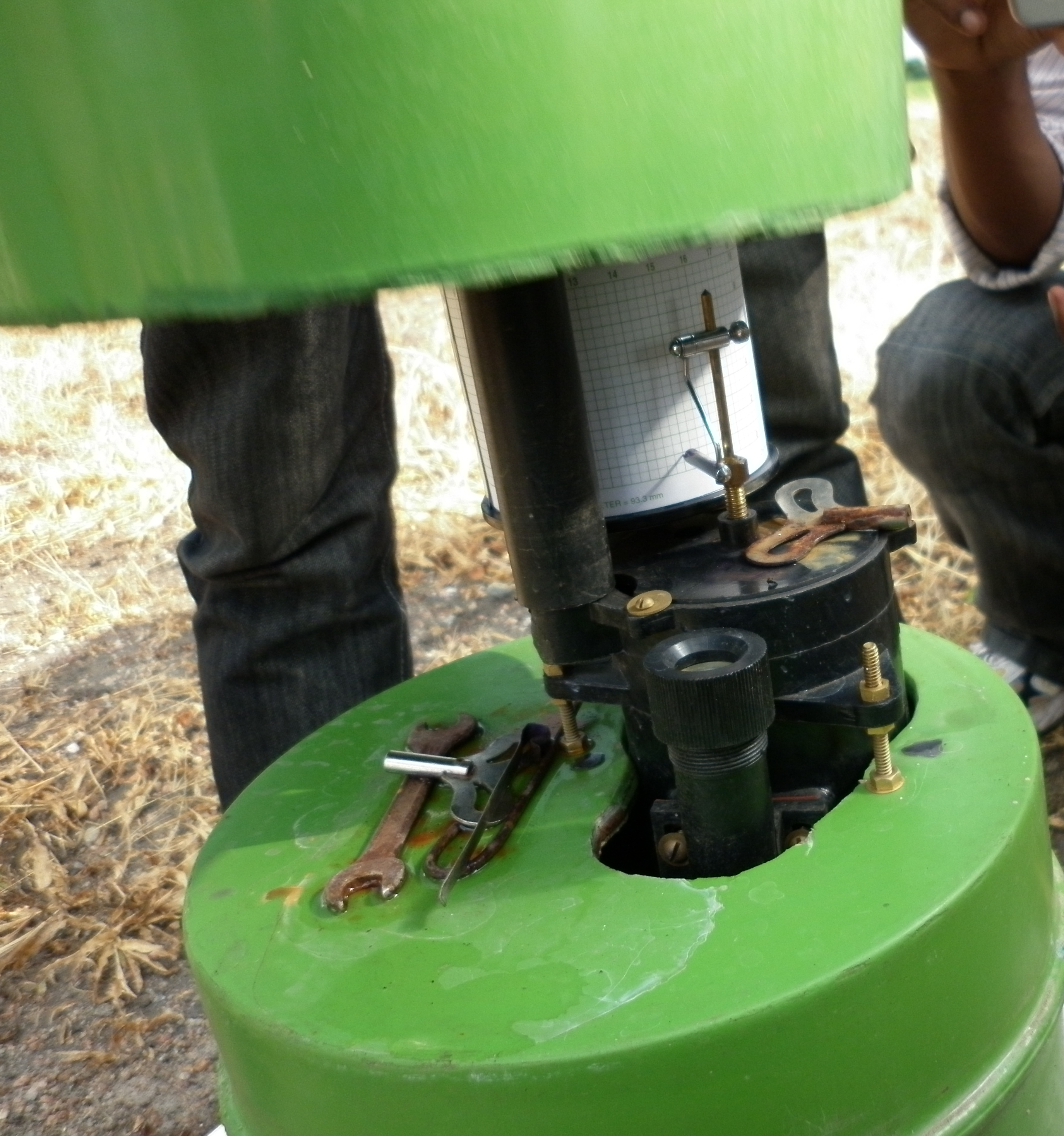 This is taken atARS Kovilpatti,Tuticorin,Tamilnadu,India